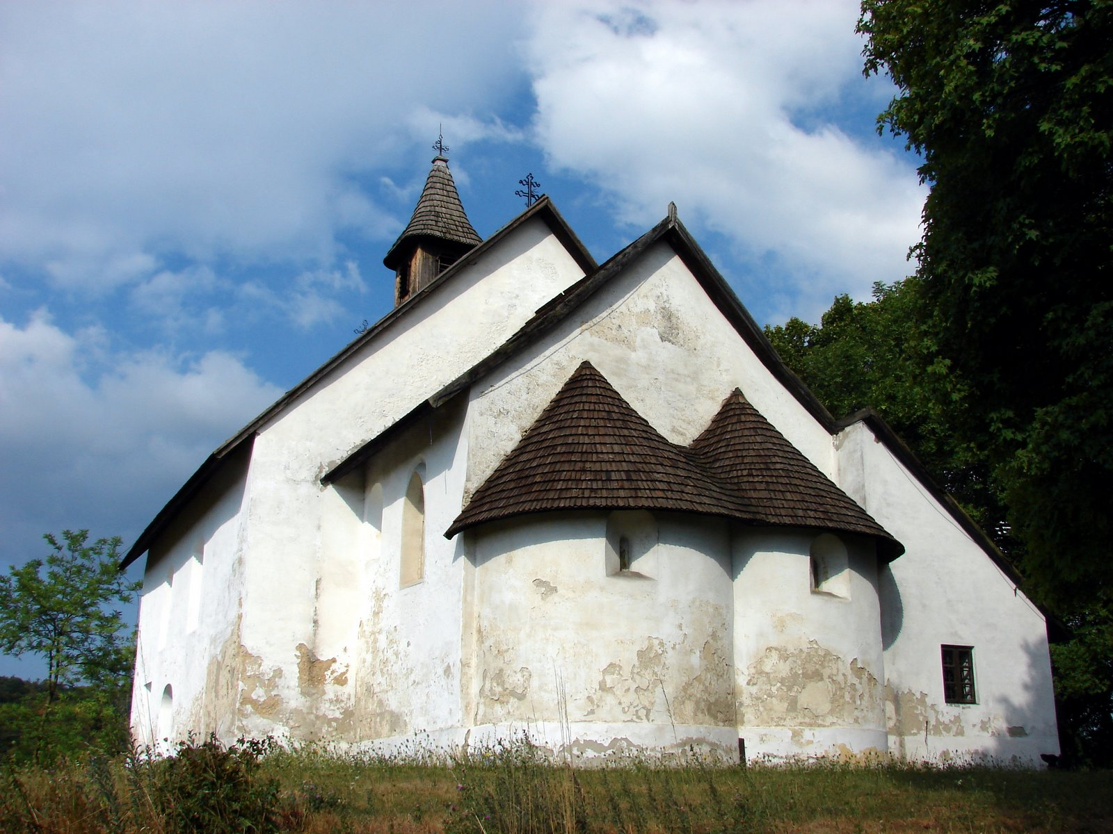 Medieval twin sanctuary church in Tornaszentandrás